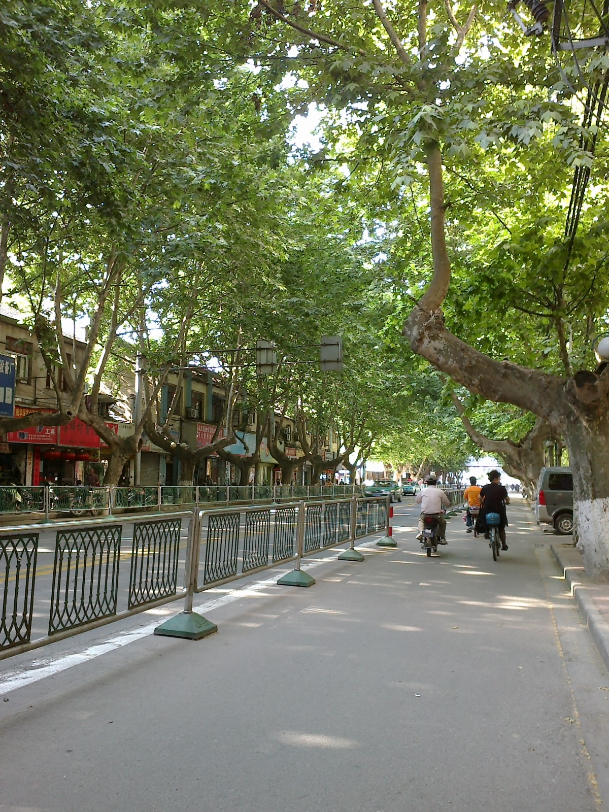 South Taiping Road scenery,Nanjing